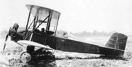 Image of the Buhl-Verville CA-3 Airster from Army Newspaper. First plane with type certificate, see this link.